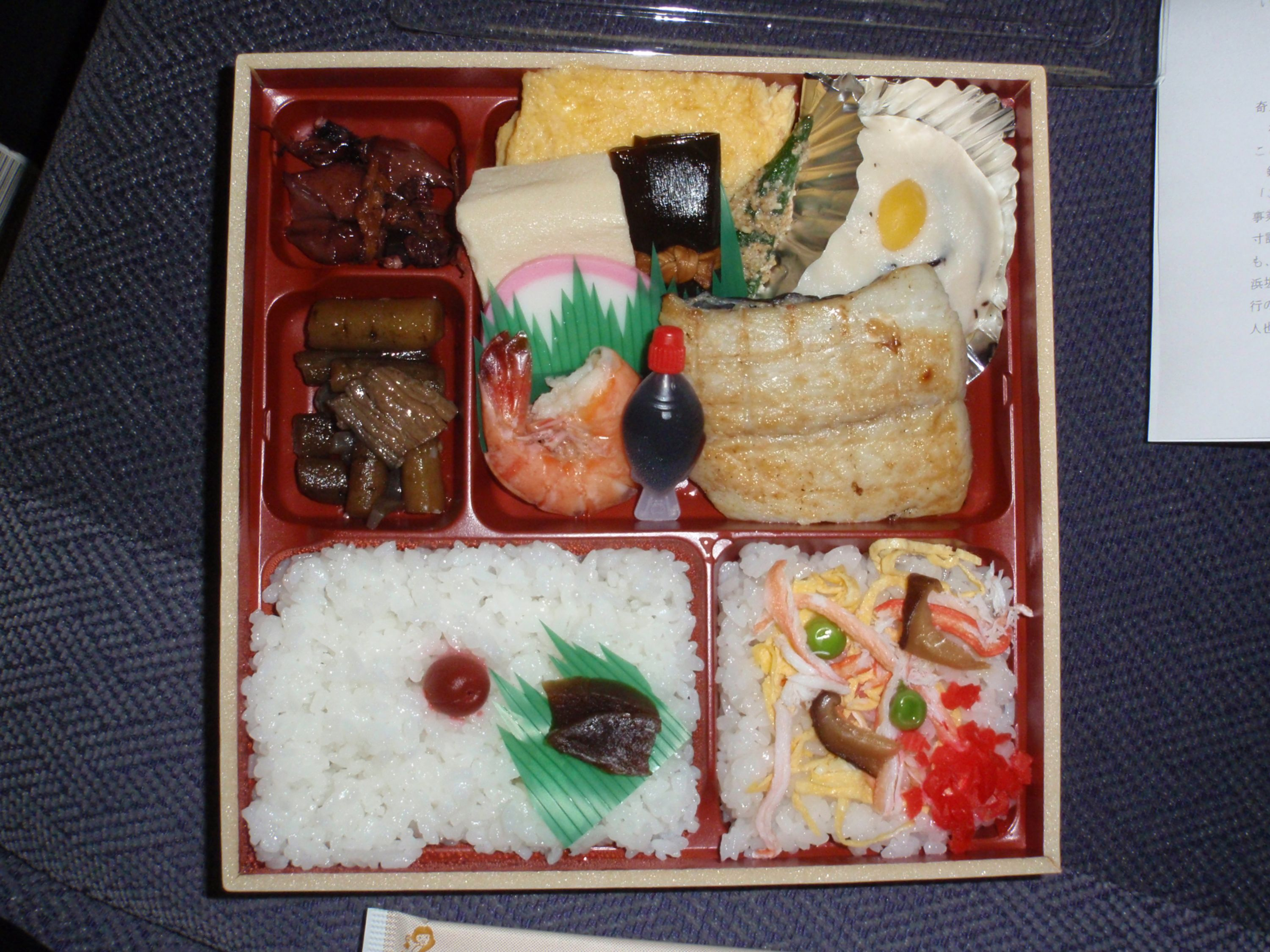 Ekiben "Amarube Tekkyou Monogatari"